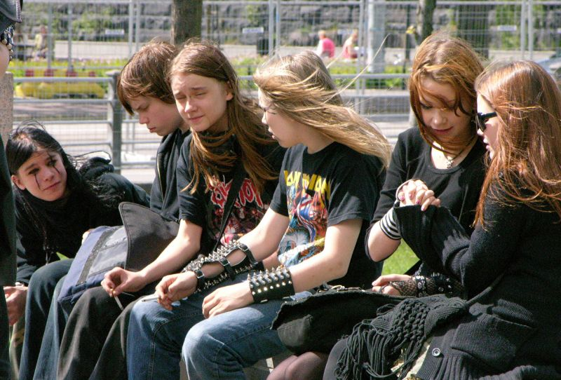 Teenage fans of Heavy Metal